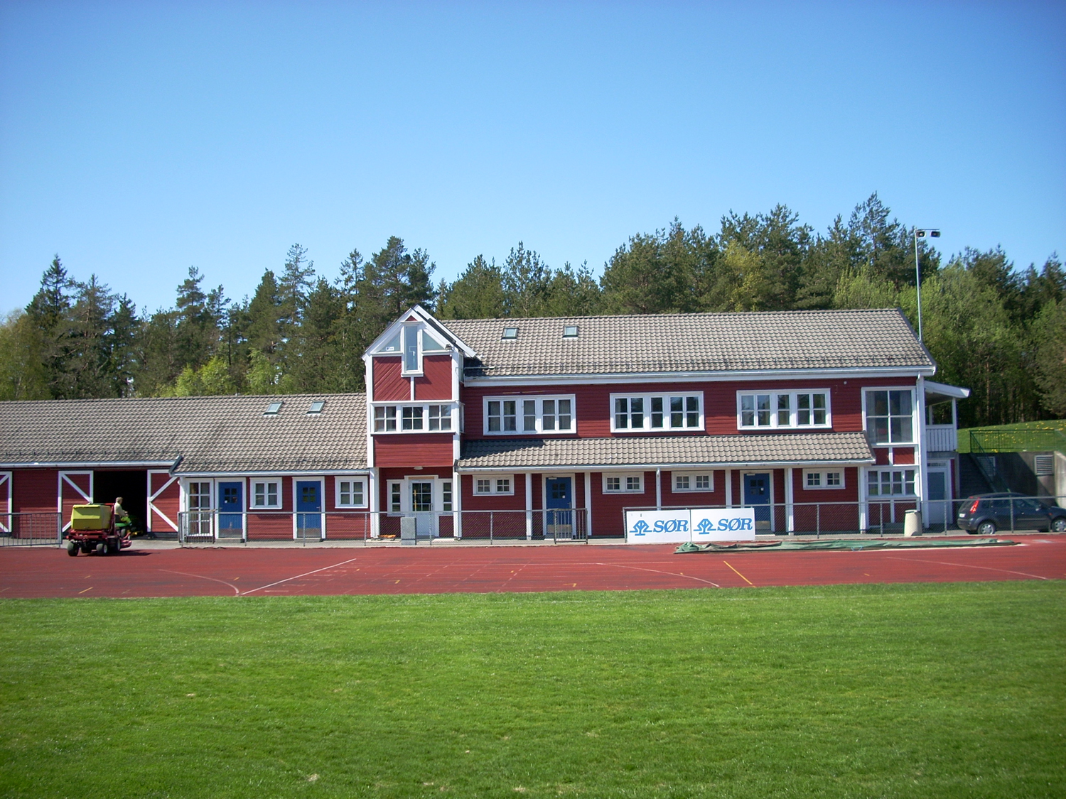 Lunderød stadium, Arendal, Norway